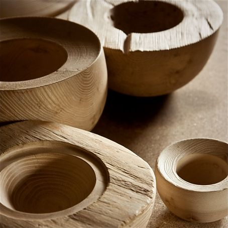 Works of Polish woodturning artist Maciek Gasienica Giewont